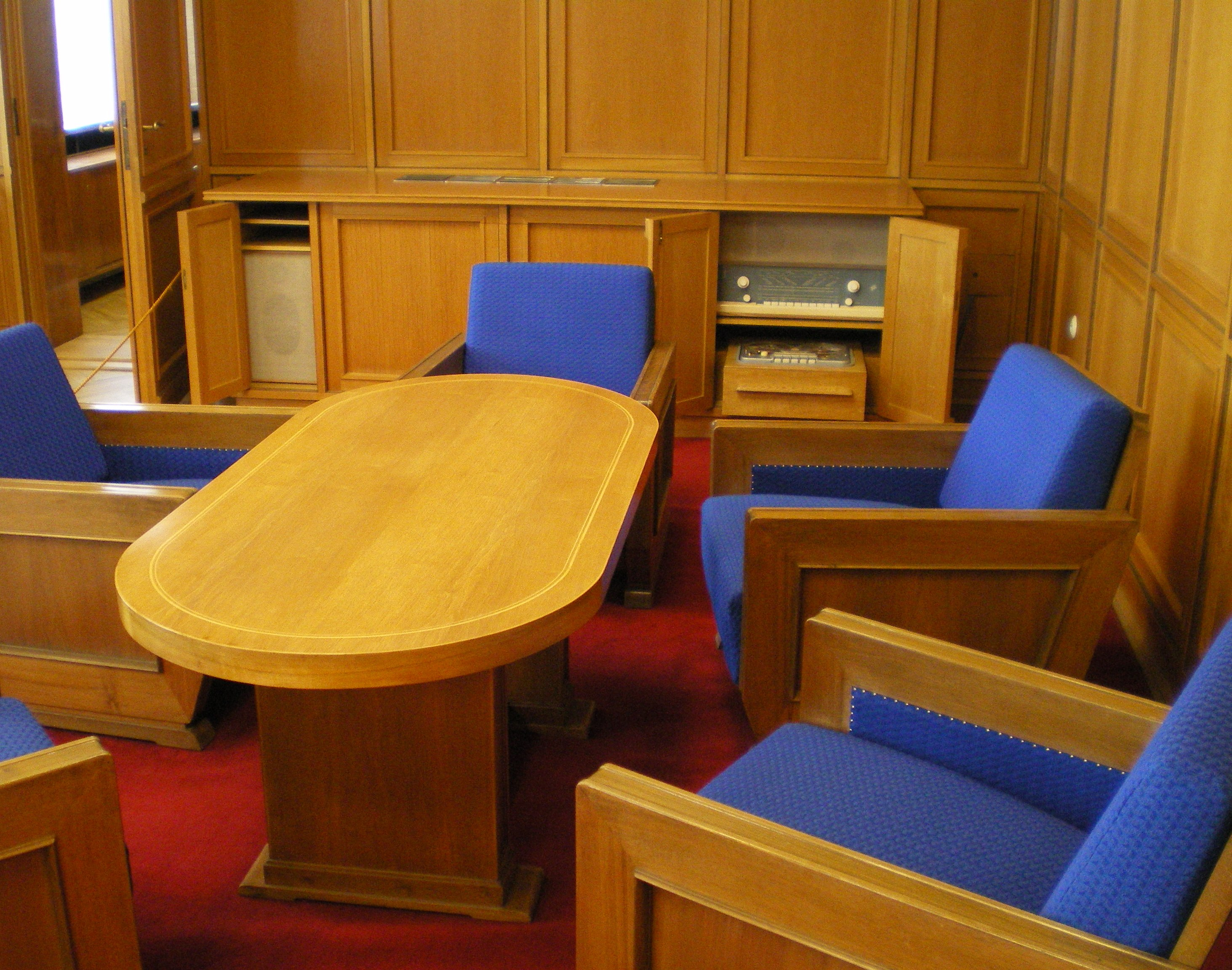 Corner with radio and tapeplayer in Mielkes office in Stasi-central in Berlin-Lichtenberg.